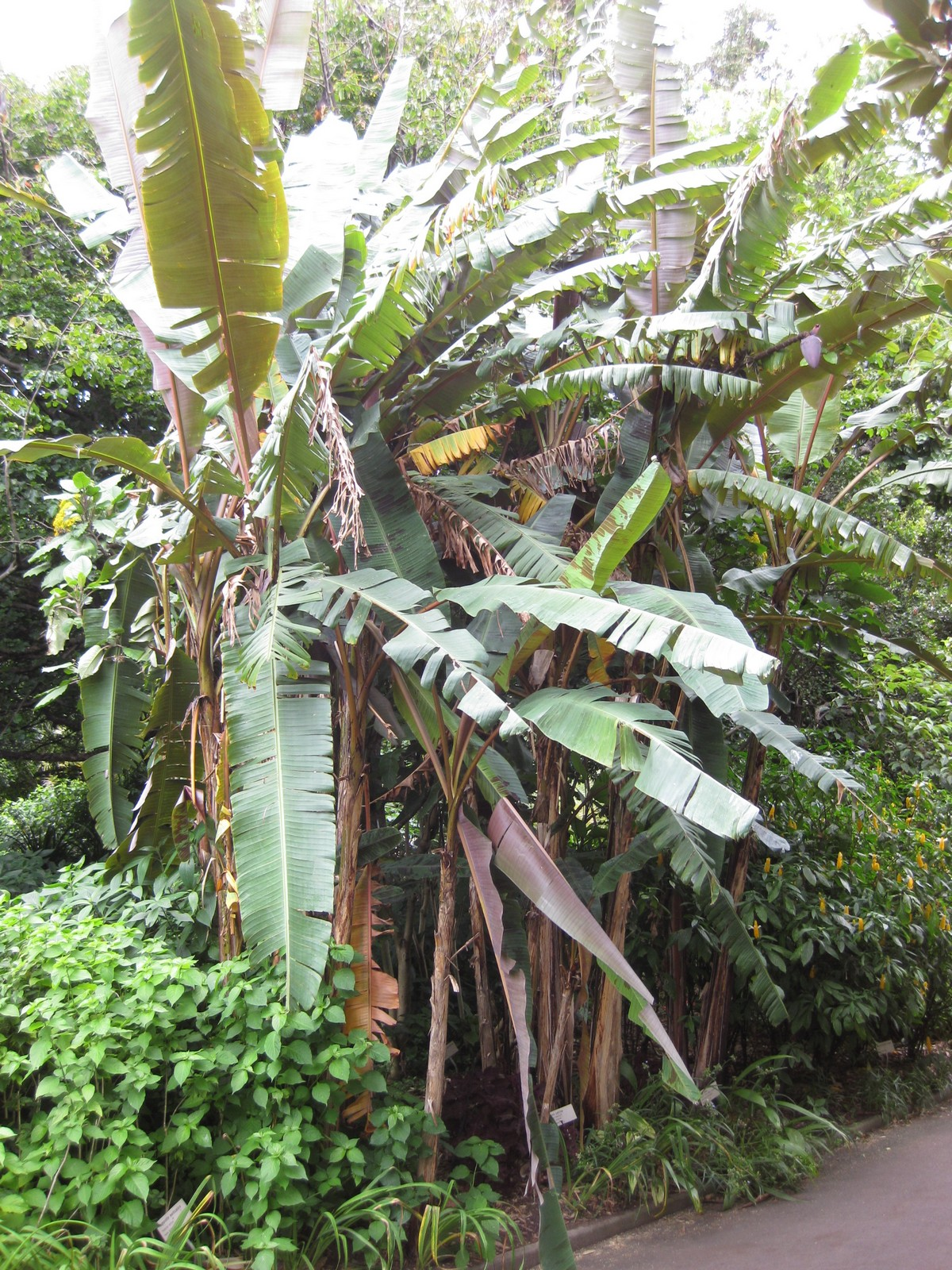 Photographed at the Royal Botanic Gardens Sydney (Australia) in January